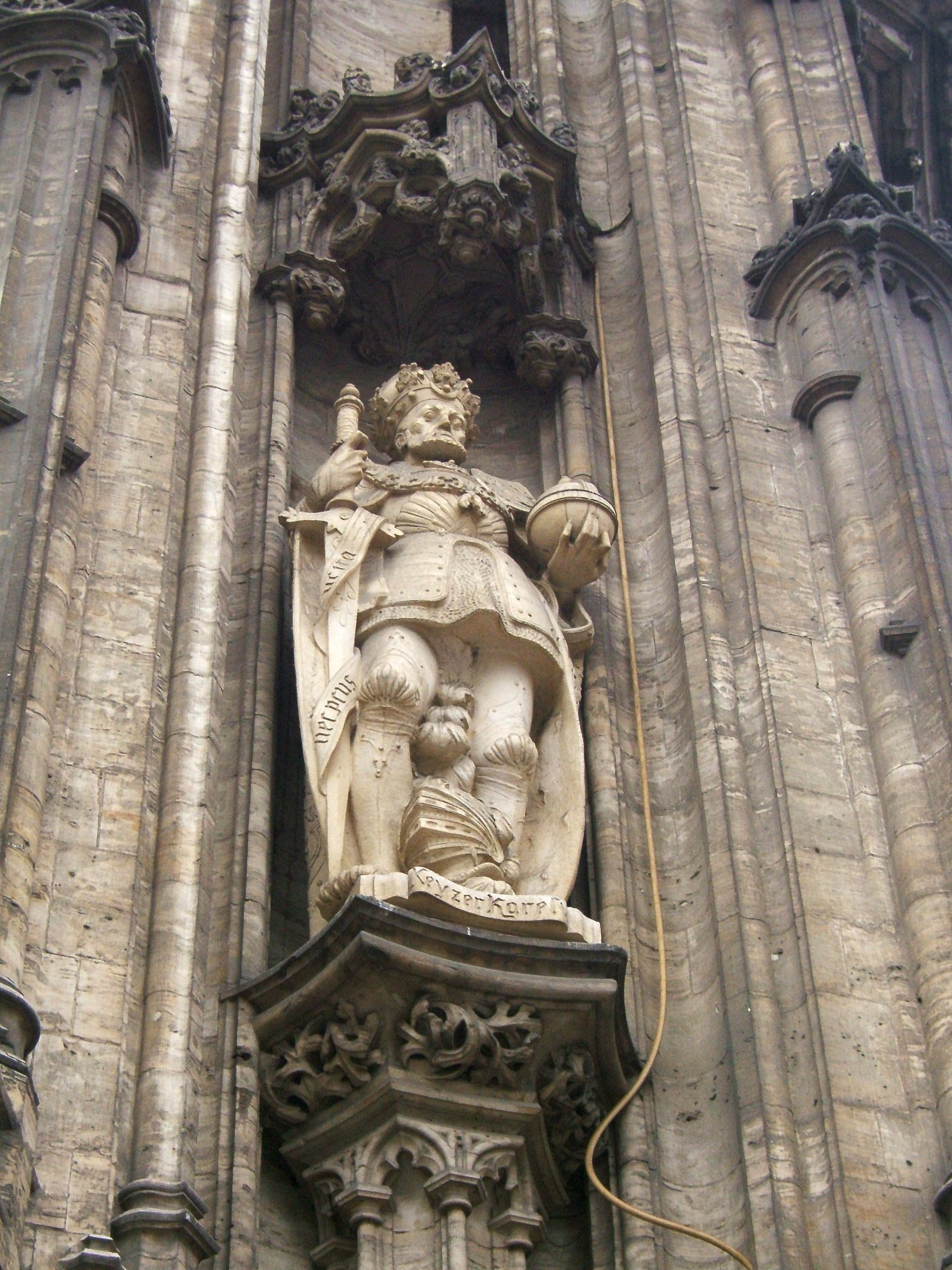 The statue of the Holy Roman Emperor Charles V († 1558) at the 16th century town hall in his birth town Gent.